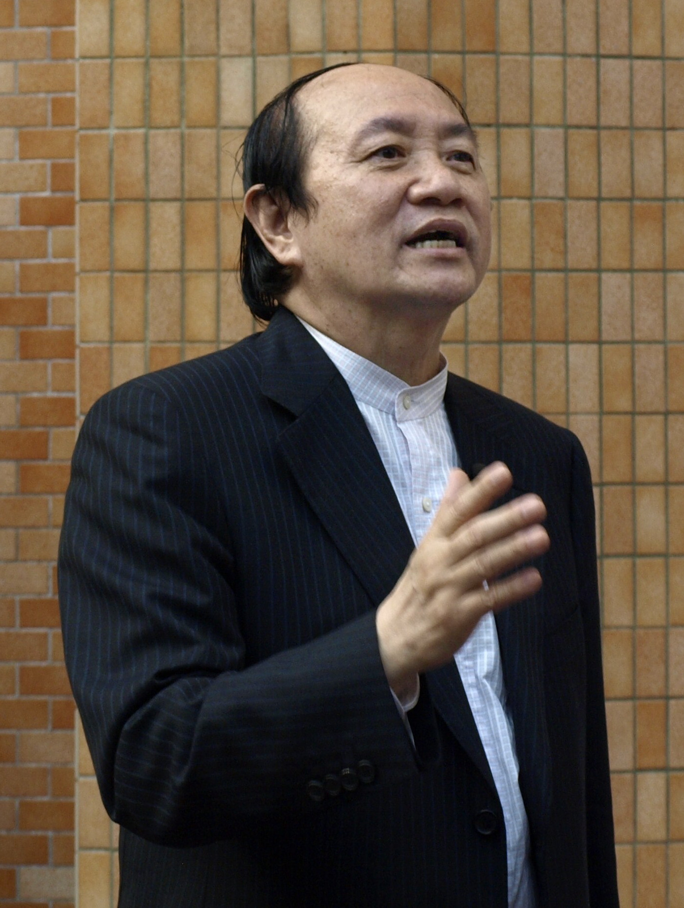 Mr. Chim Pui Chung, a member of the Legislative Council of Hong Kong, in Hong Kong Shue Yan University 中文（香港）: 香港立法會金融服務界議員詹培忠在香港樹仁大學